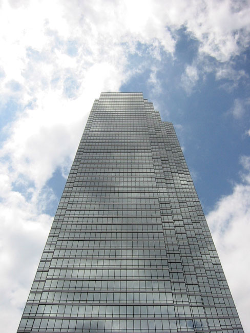 Bank of America Plaza in Dallas, Texas. Personal picture taken May 9, 2004.